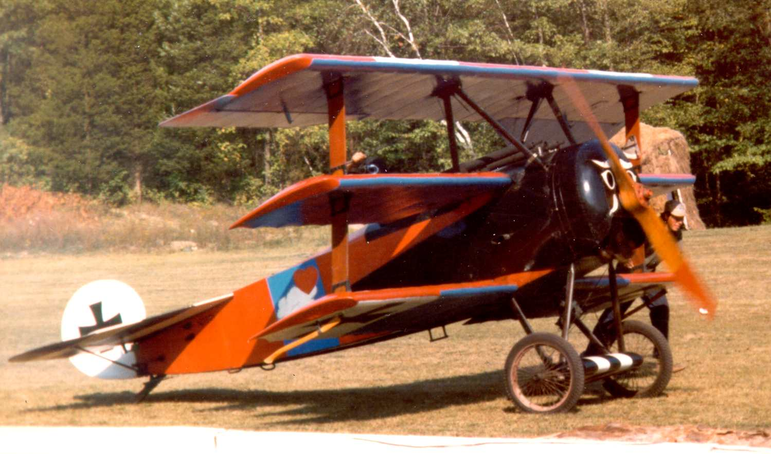 The most-flown reproduction of a rotary engine-powered Fokker Dr.I known to exist, Cole Palen flew N3221 over two decades (1967-87) at his Old Rhinebeck Aerodrome living aviation museum's weekend airshows.